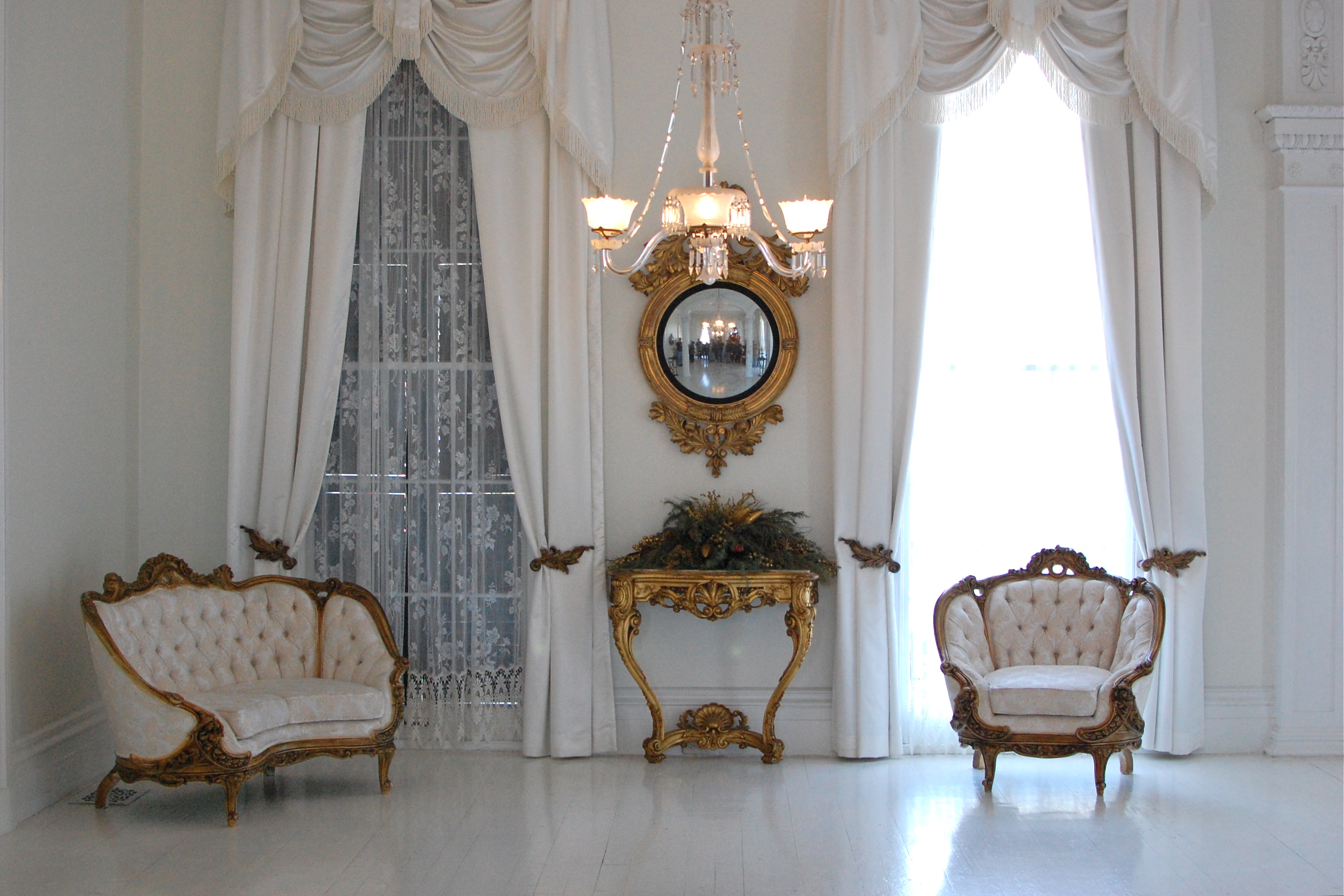 Interior of the Nottoway Plantation house in White Castle, Louisiana.